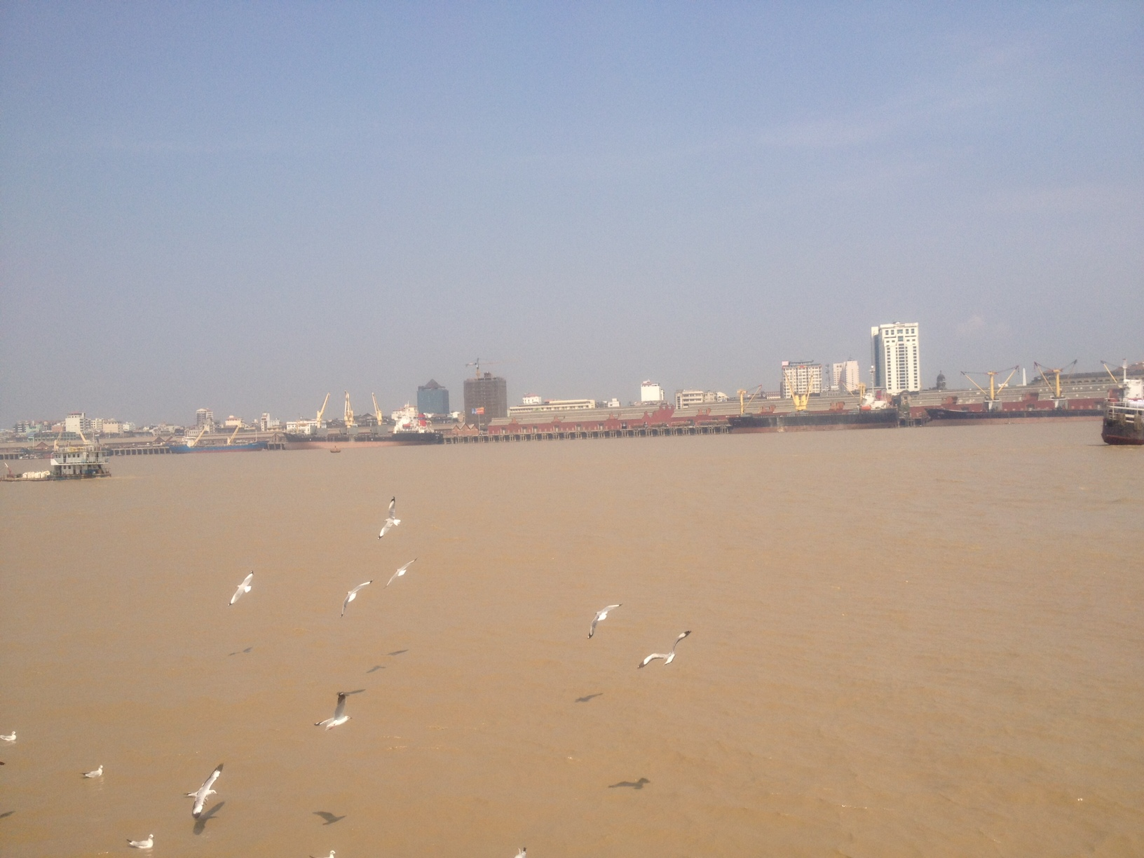 The View of Yangon City from Yangon River